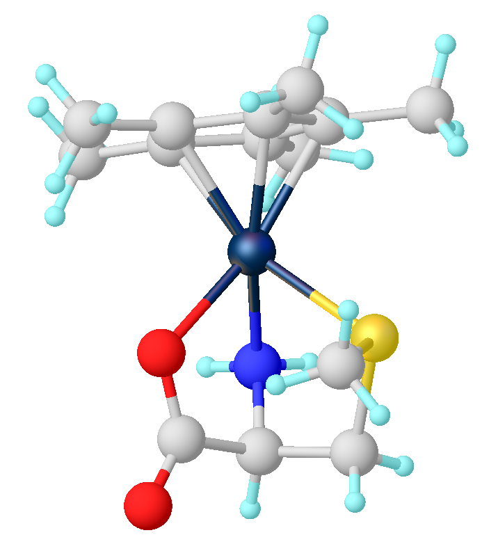 Structure of [Cp*Ir(kappa-3-methionine)]Otf according to doi=10.1107/S1600536806053360